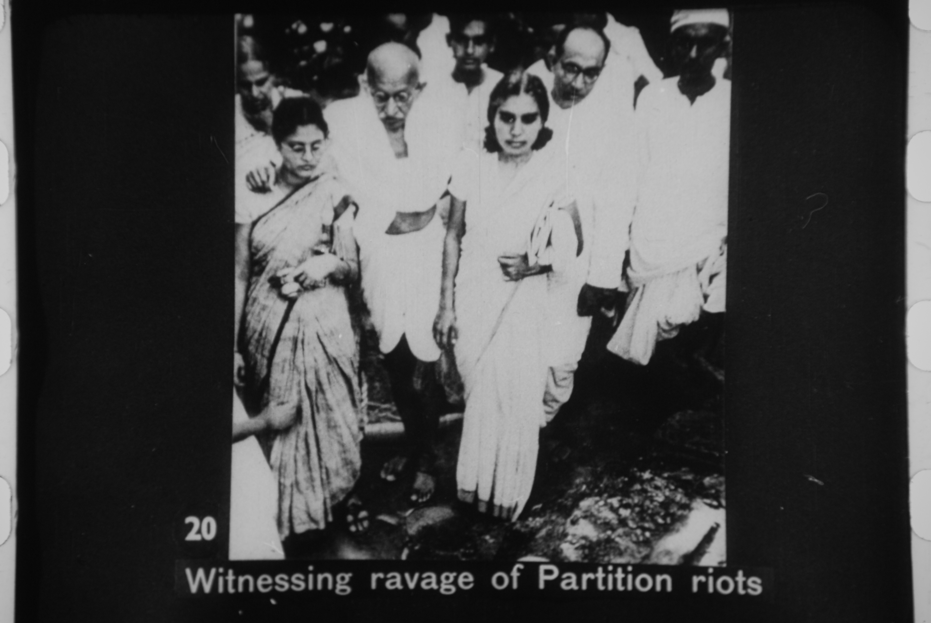 Gandhi witnessing ravage of communal riots